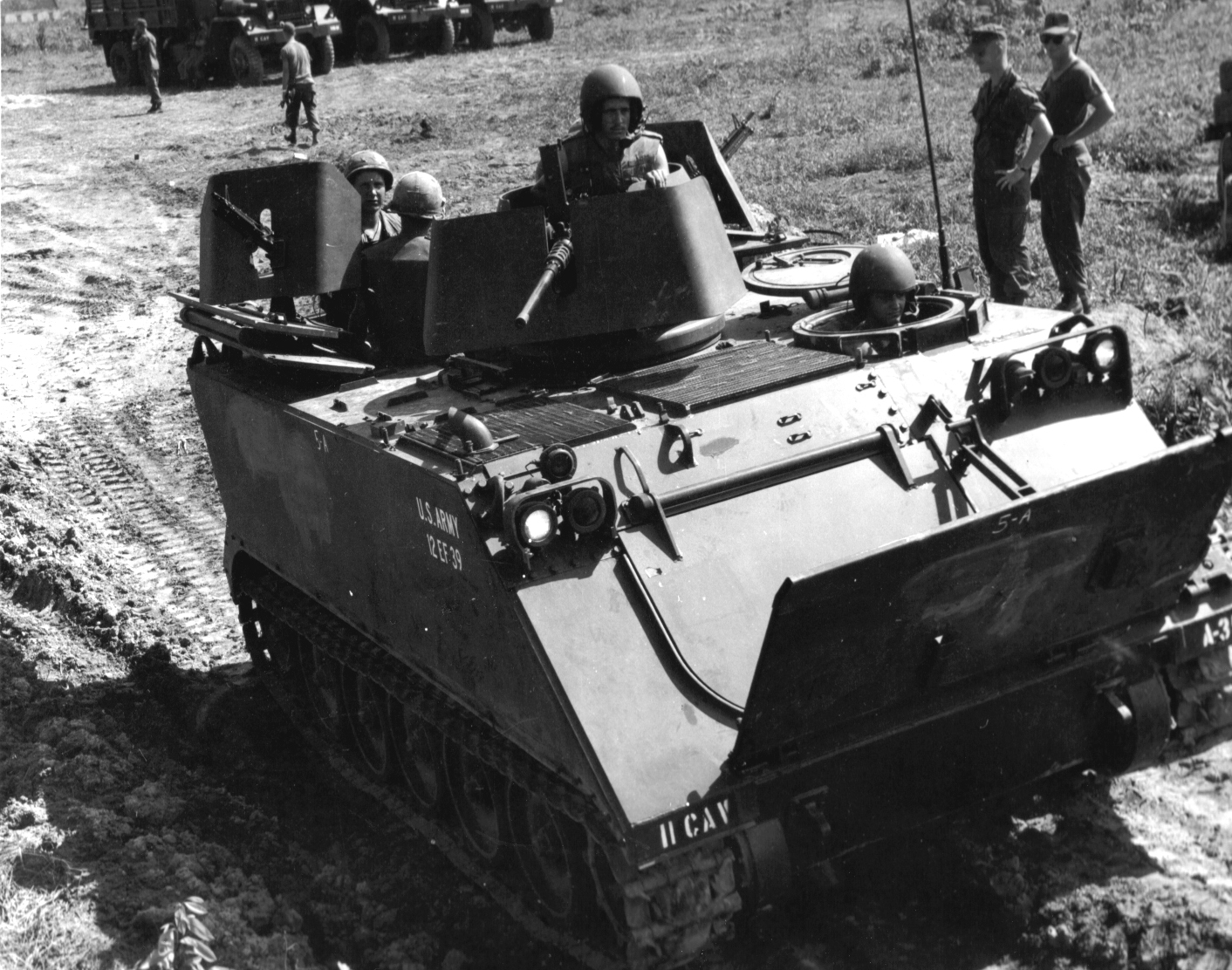 ACAV PREPARES TO ESCORT A TRUCK CONVOY.